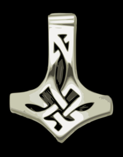 The Mjolnir, symbol of all the Heathen faiths. Gray version with carvings on black background.